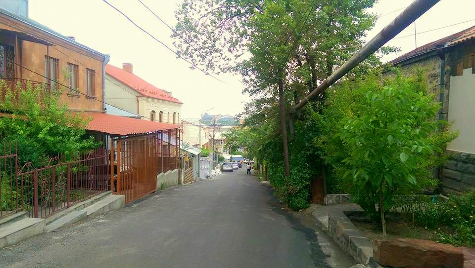 Armen Gulakyan street, Yerevan, Arabkir district (2015)